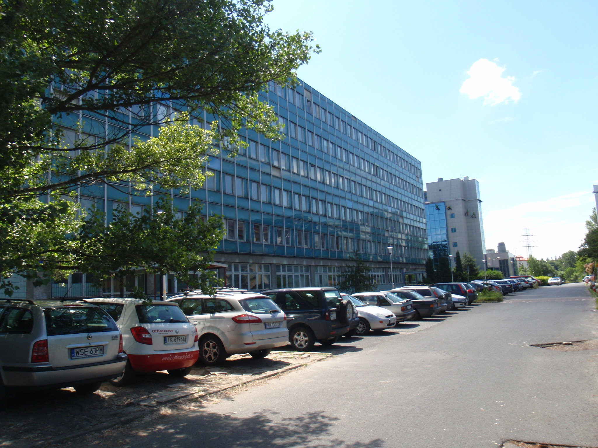 Building of Faculty of Applied Linguistics of Warsaw University Szturmowa street